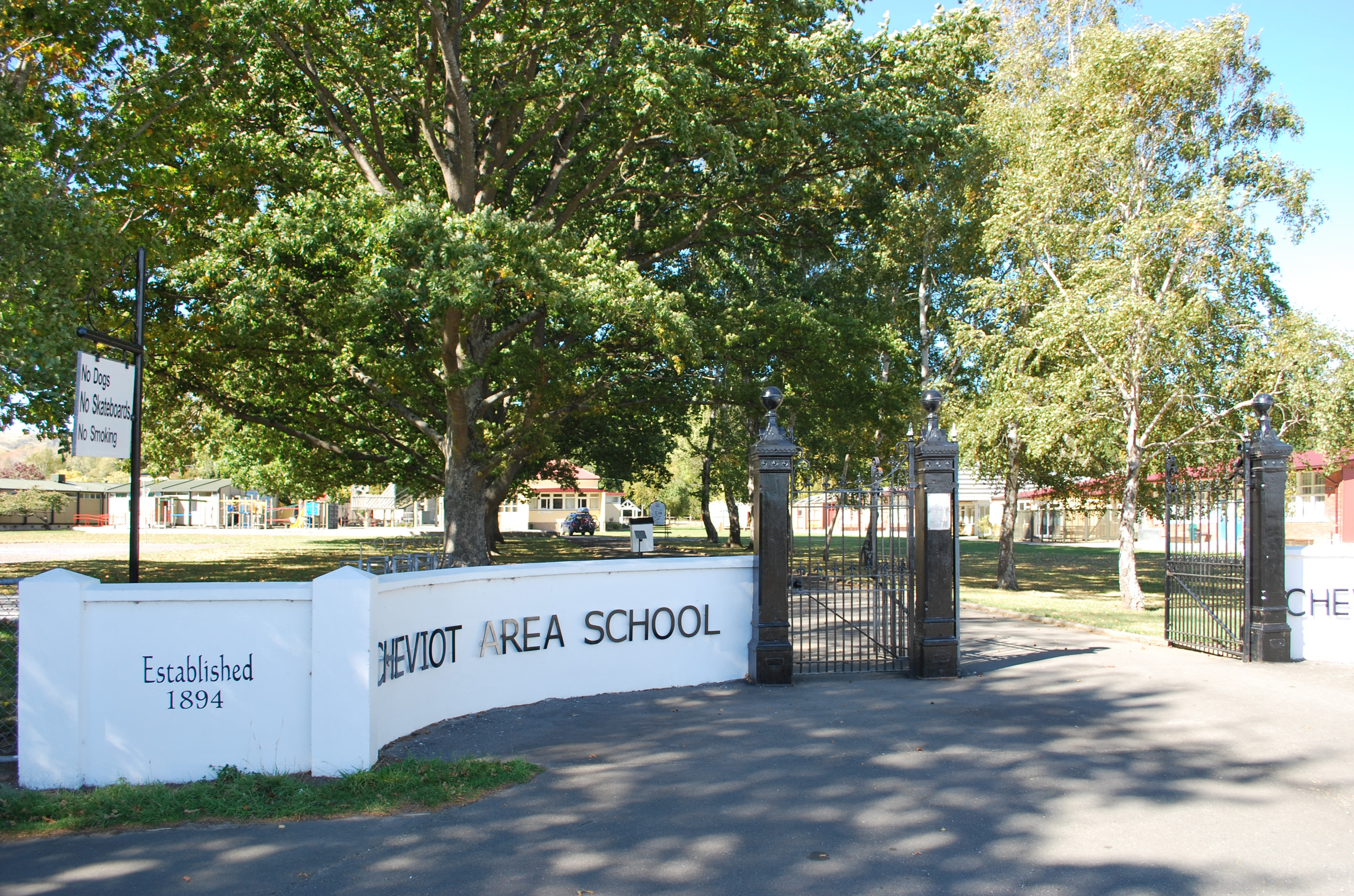 Gates of Cheviot Area School at Cheviot, New Zealand